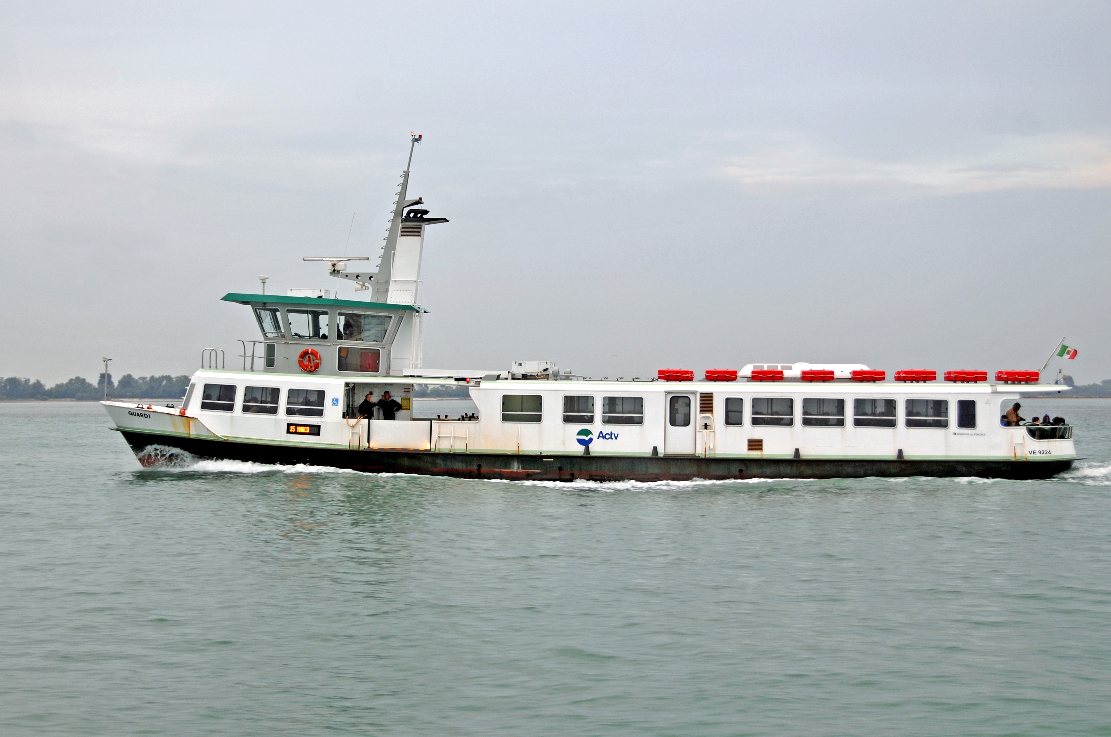 A ferry boat making runs around the islands in the lagoon.